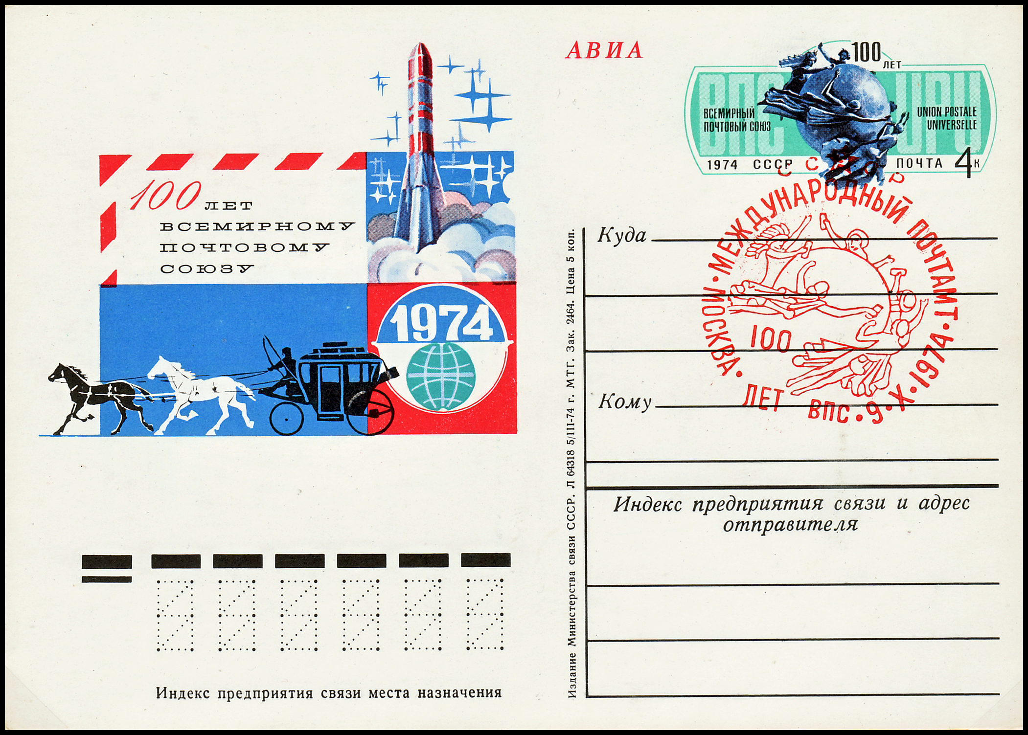 USSR, 1974. Postal card with commemorative stamp. Airmail. " 100th anniversary of the Universal Postal Union" (CPA Catalogue №19). Stamp: Emblem UPU - a monument near the UPU headquarters in Bern. Illustration: Old and modern means of mail delivery: carriage and space launch vehicle. Painter A. Sharov. Special cancellations: "100th anniversary of UPU" 10/09/1974 Moscow, International Post Office (red mastic).